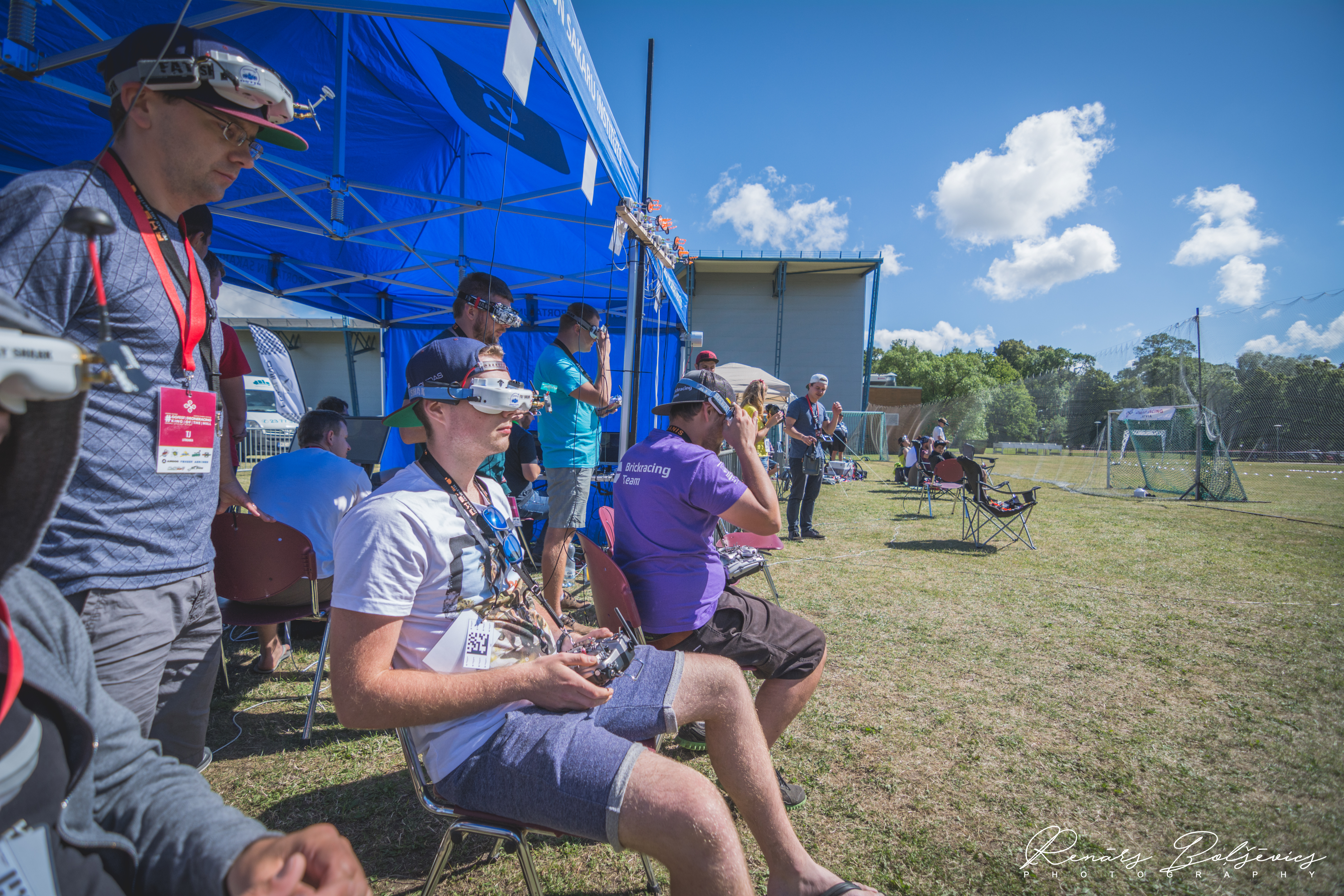 Ghetto Games King Of The Hill 2017